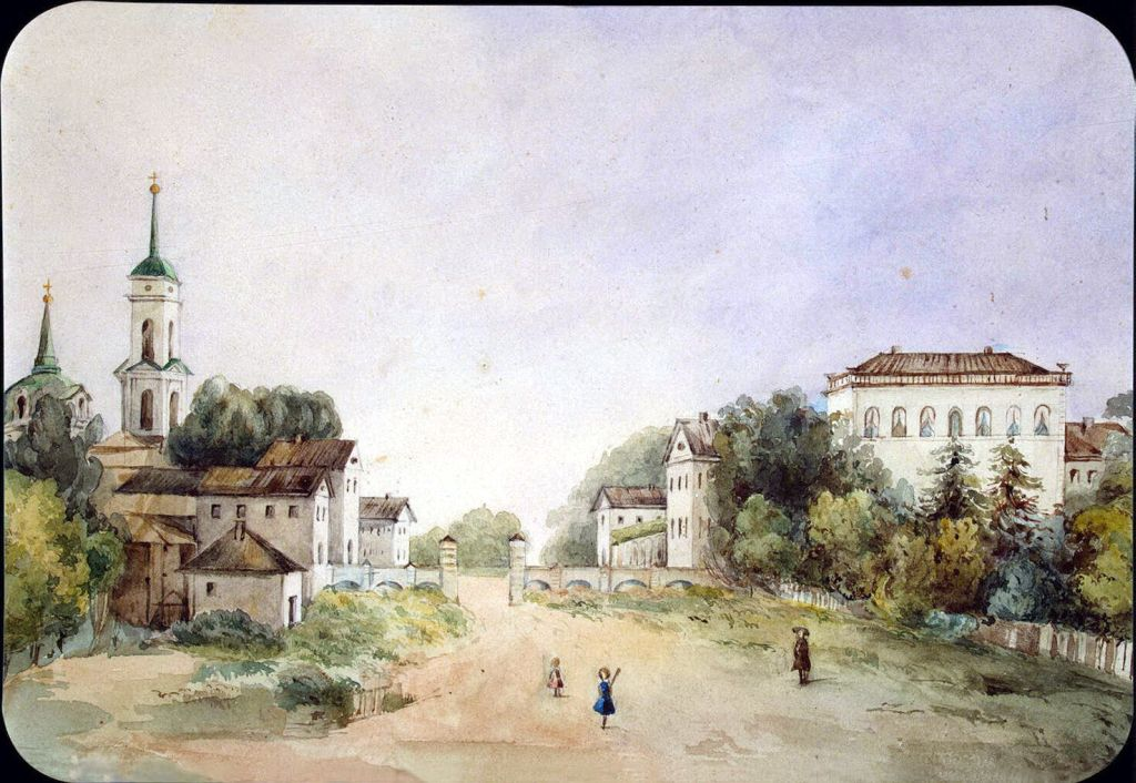 The manor of Count Ribeaupierre in Novoye Selo near Vyazma